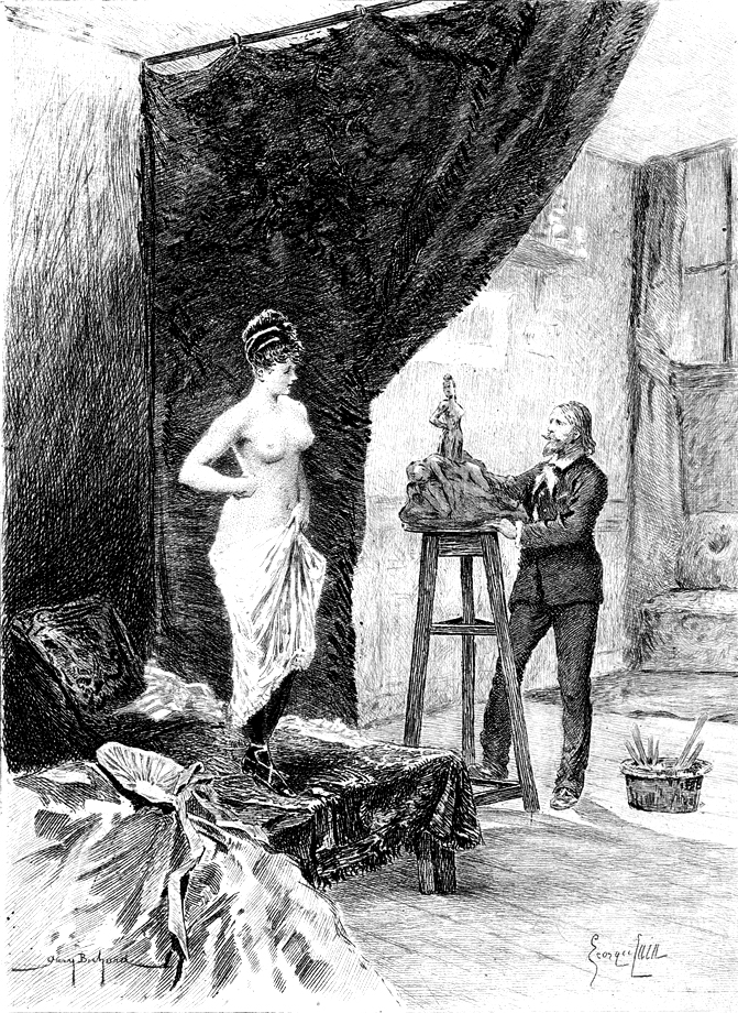 Illustration of Honoré de Balzac's The Purse (1830).